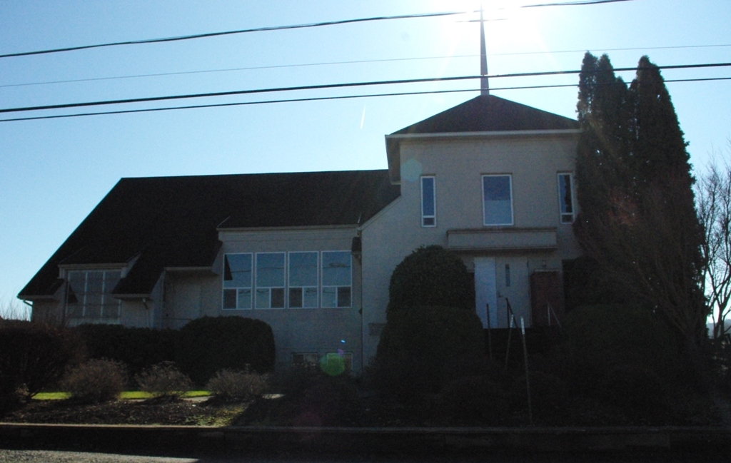 Church in Laurel, Oregon, USA